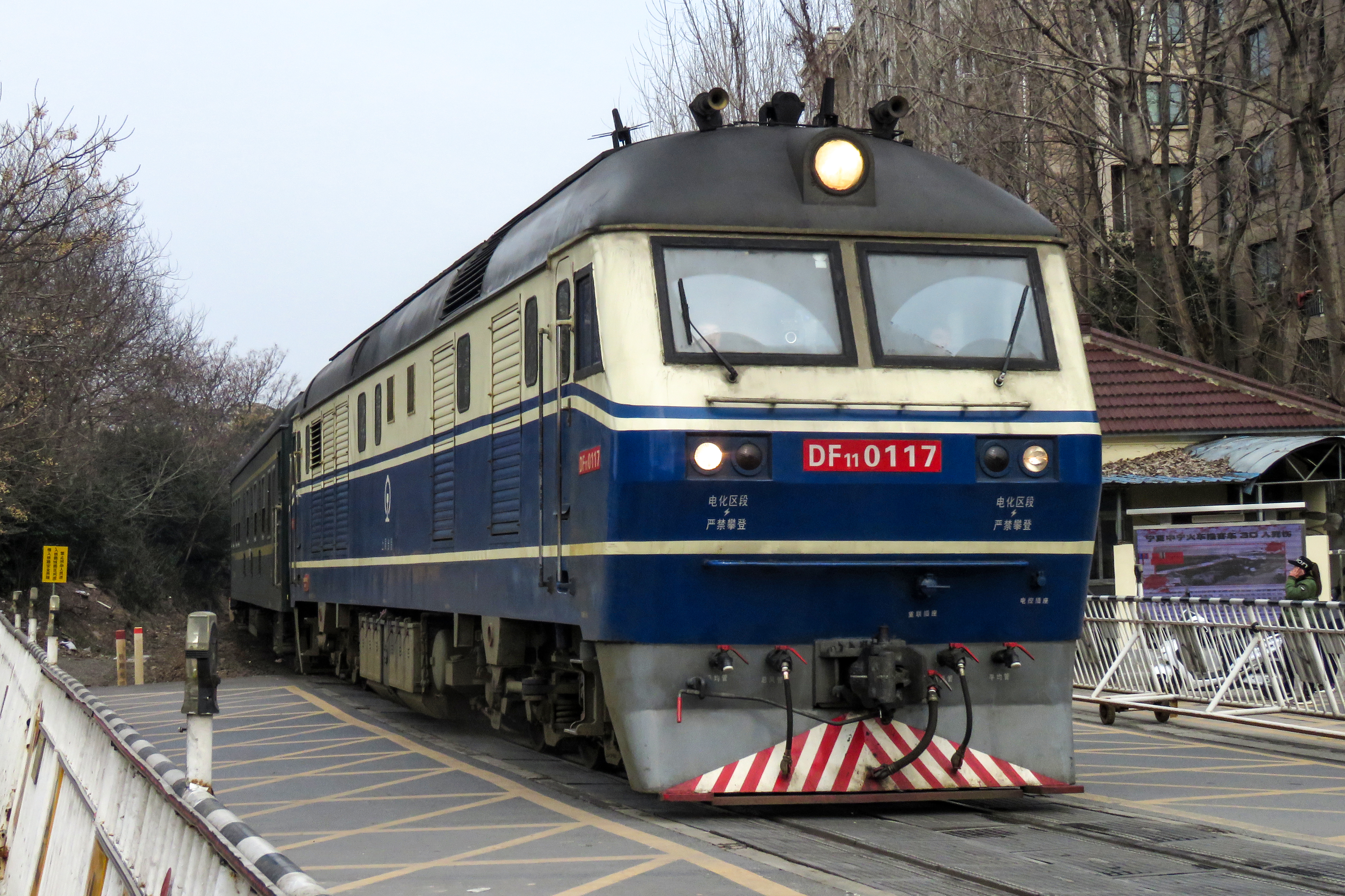 T237 from Suzhou to Chongqing North. This locomotive is based in Hefei.